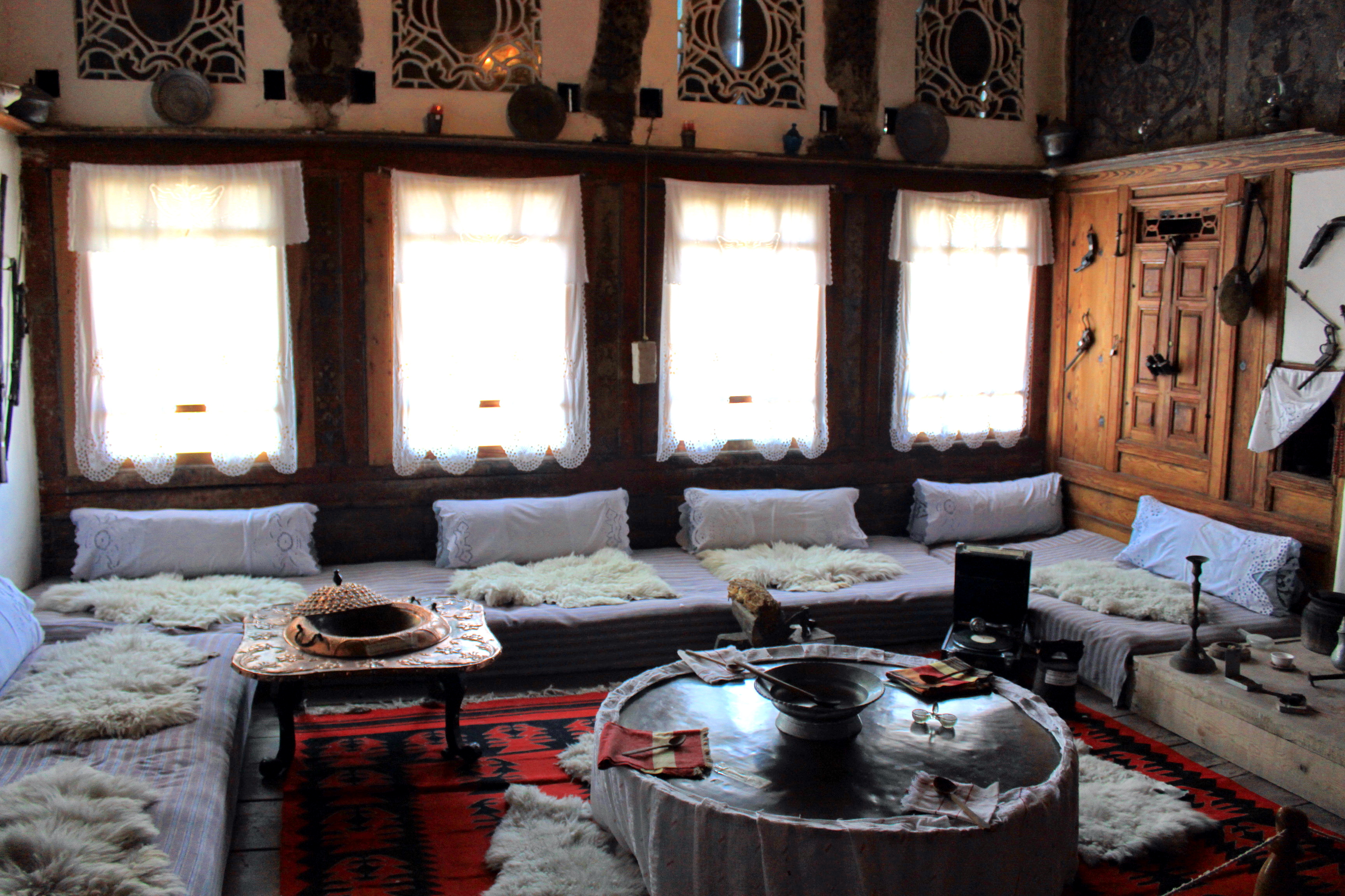 Ethnographic Museum, Krujë, AlbaniaShqip: Muze Etnografik, Kruja, Shqipëria